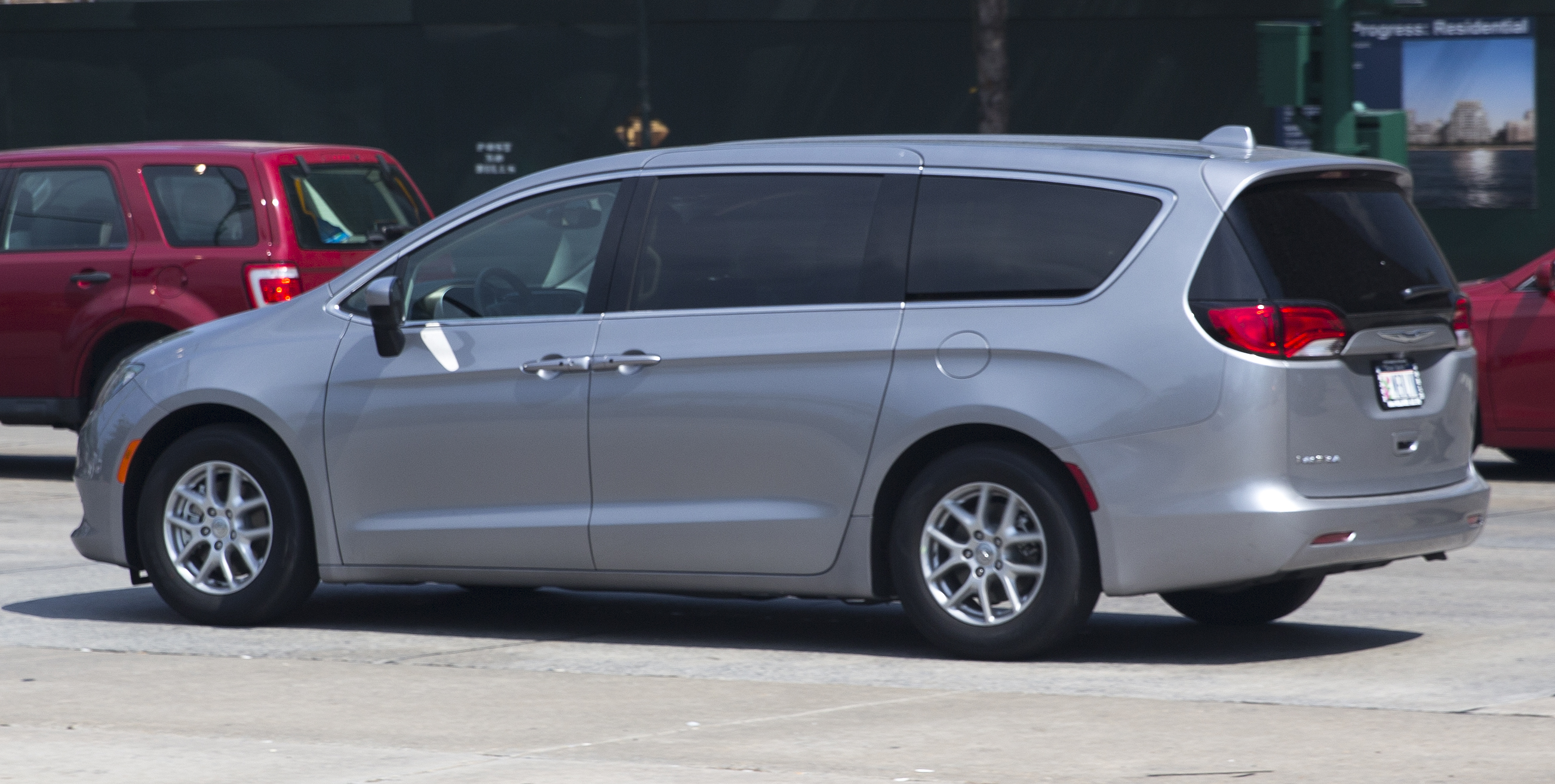 A 2017 Chrysler Pacifica, left rear view